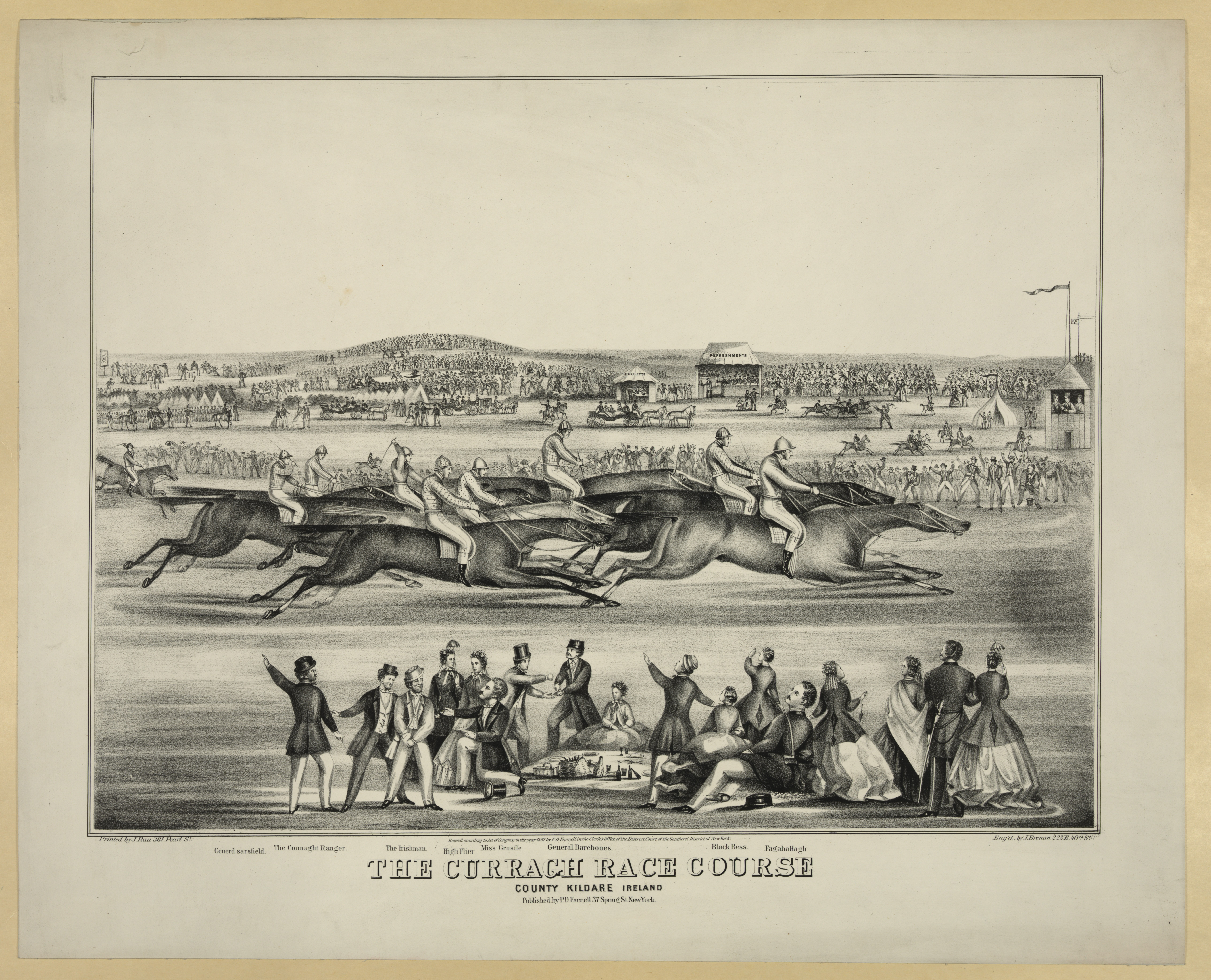 Title: The Curragh race course, County Kildare Ireland Physical description: 1 print. Notes: This record contains unverified data from PGA shelflist card.; Associated name on shelflist card: Rau, J.; "Copyright Deposit, Southern District of N.Y.: 1867."